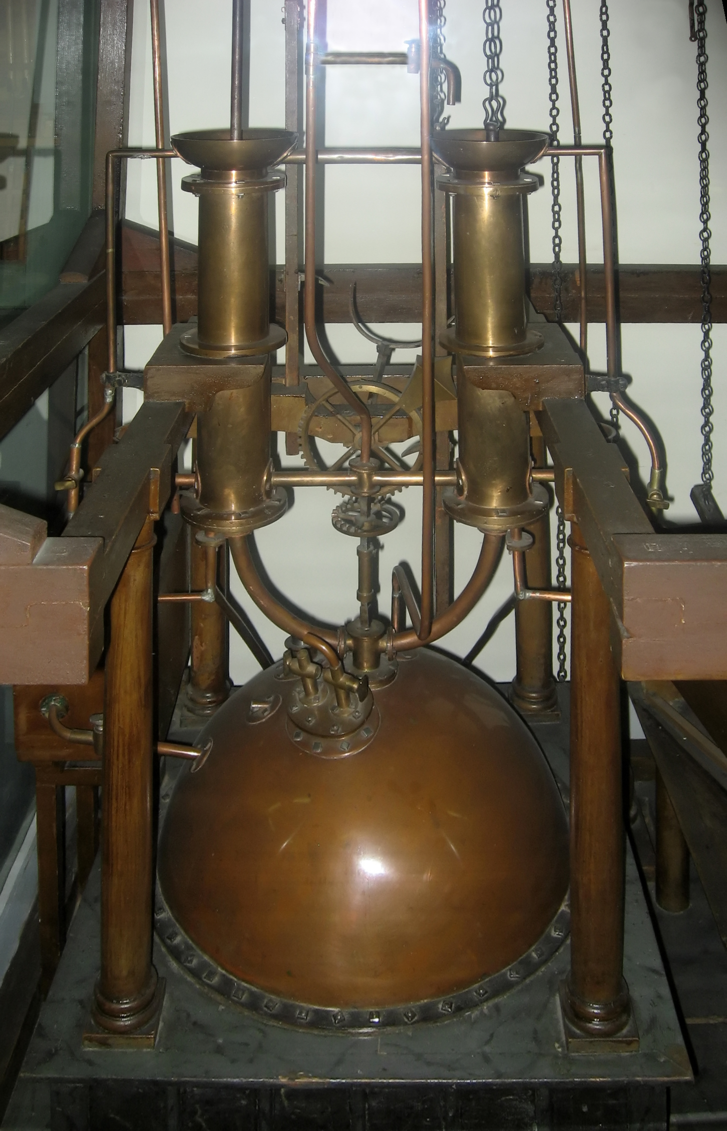 First steam engine created by Ivan Polzunov in Barnaul in 1763 / Museum of Barnaul